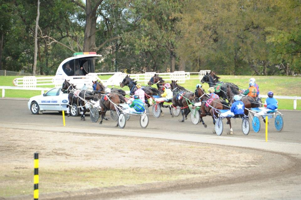 Harness racing at Fairfield Showground